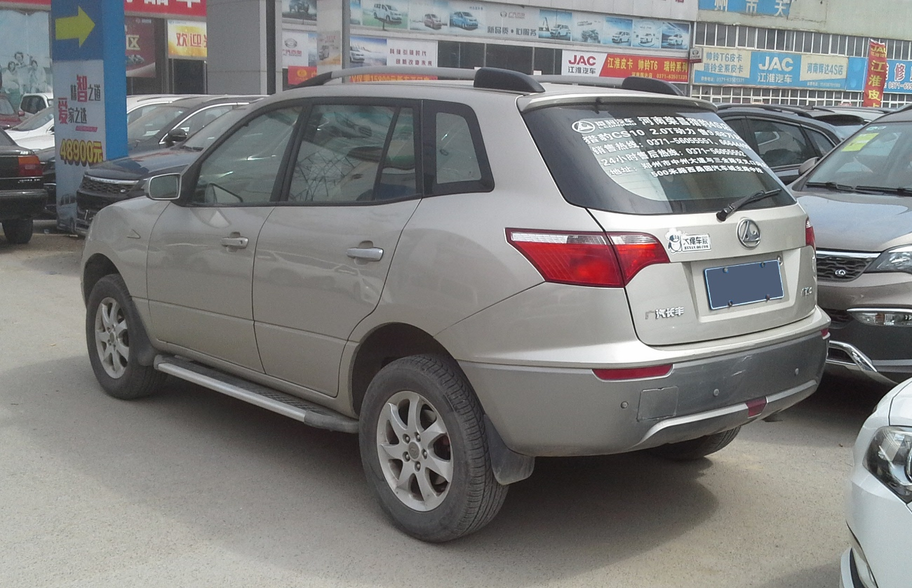 Changfeng Liebao CS7 photographed in Zhengzhou, Henan province, China.